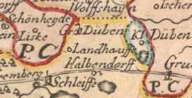 Crop from the map Image:Priebussischer Creis nebst Herrschaft Muska.png.